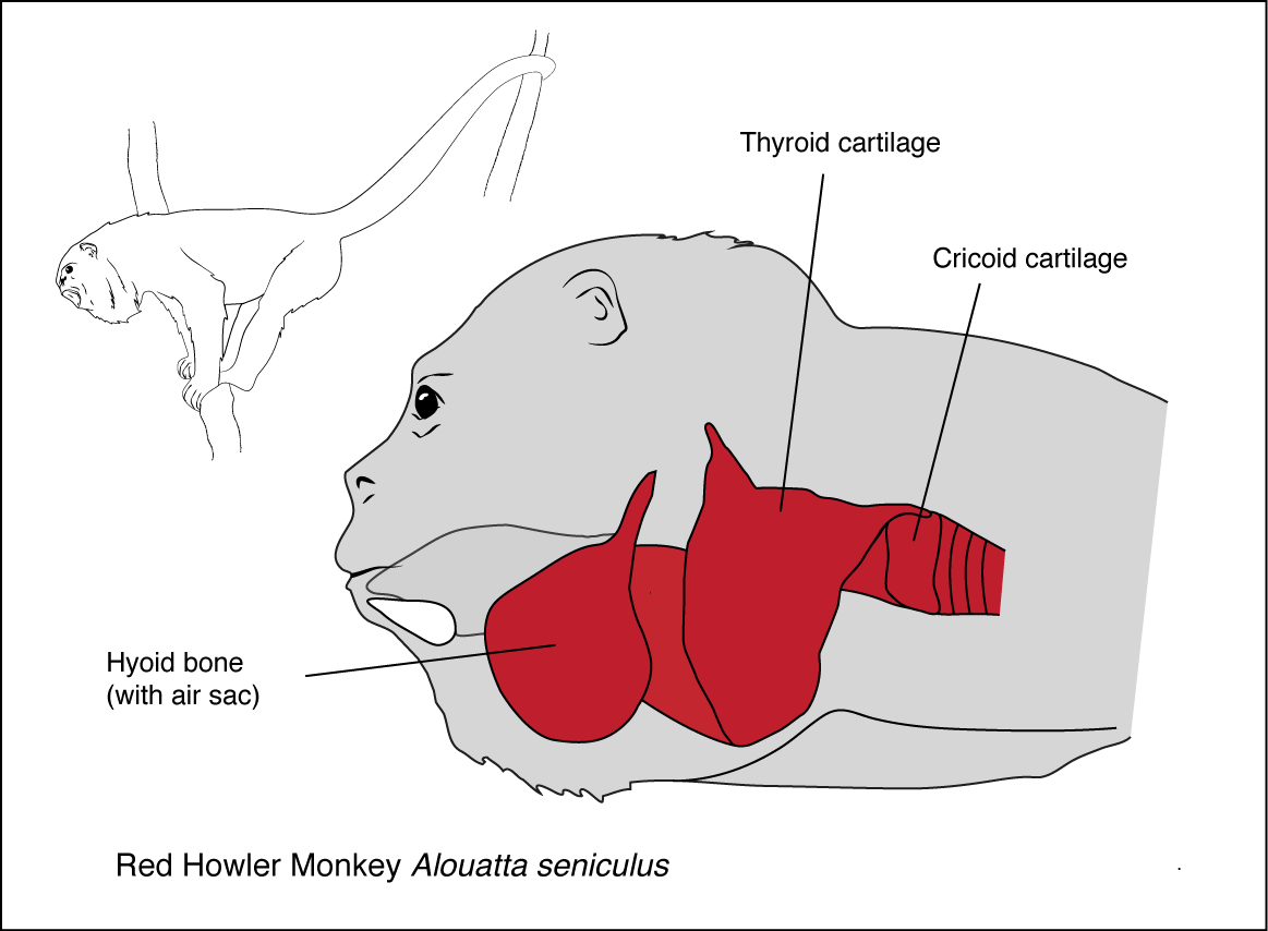 Larynx of a howler monkey Alouatta seniculus